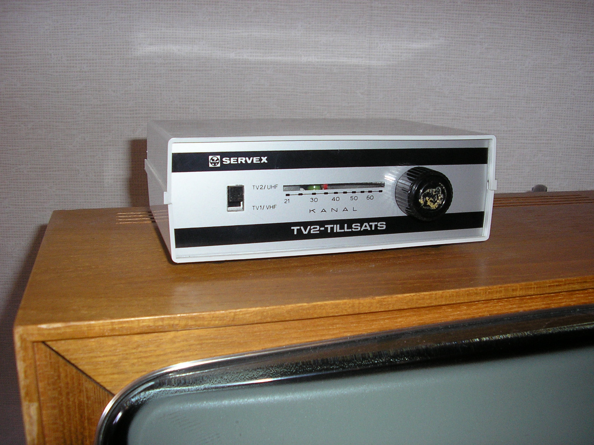 "TV2" adapter to make it possible to view SVT2 on an old TV in Sweden.